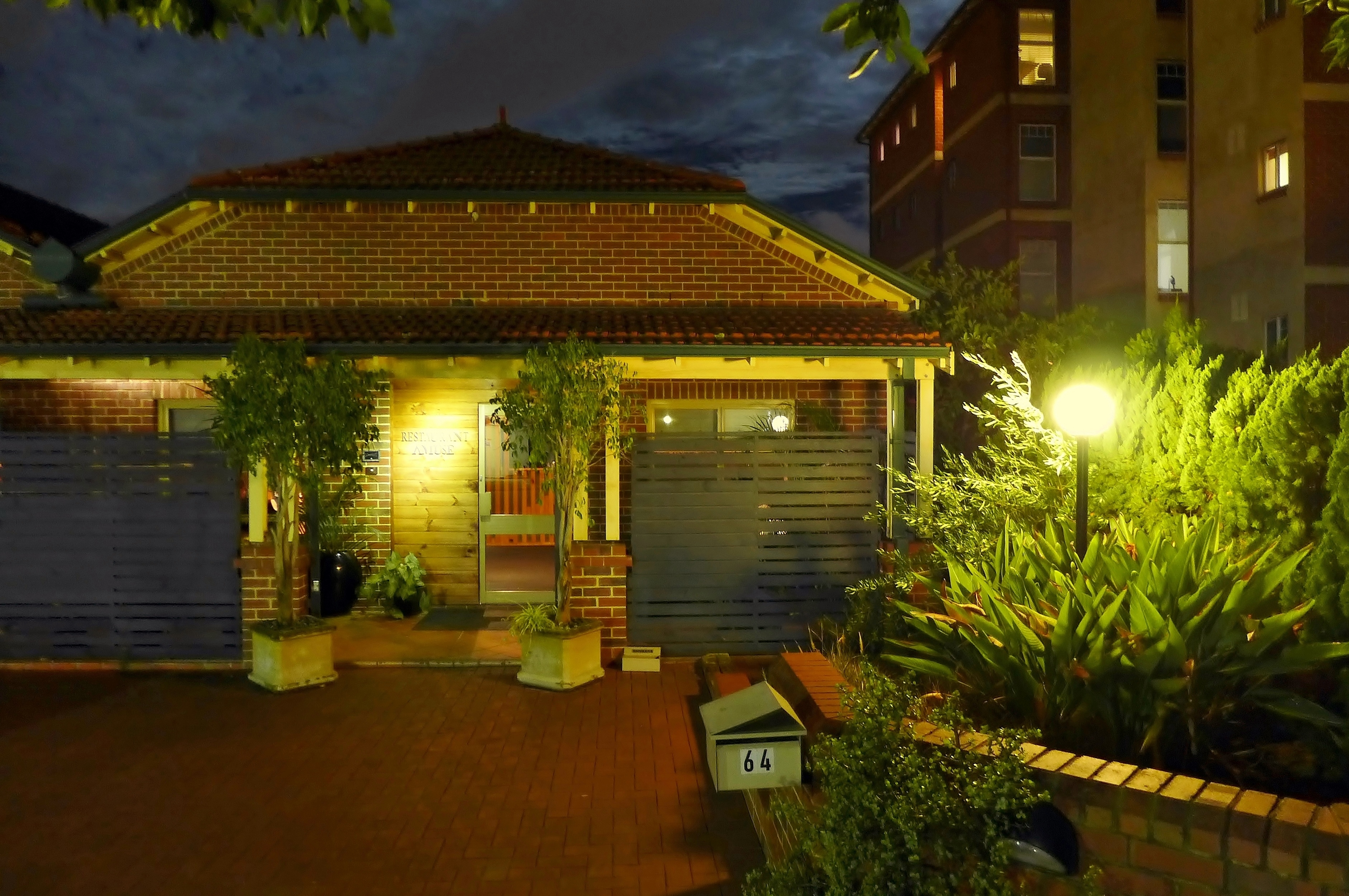 View of the exterior of Restaurant Amusé, East Perth, Western Australia.